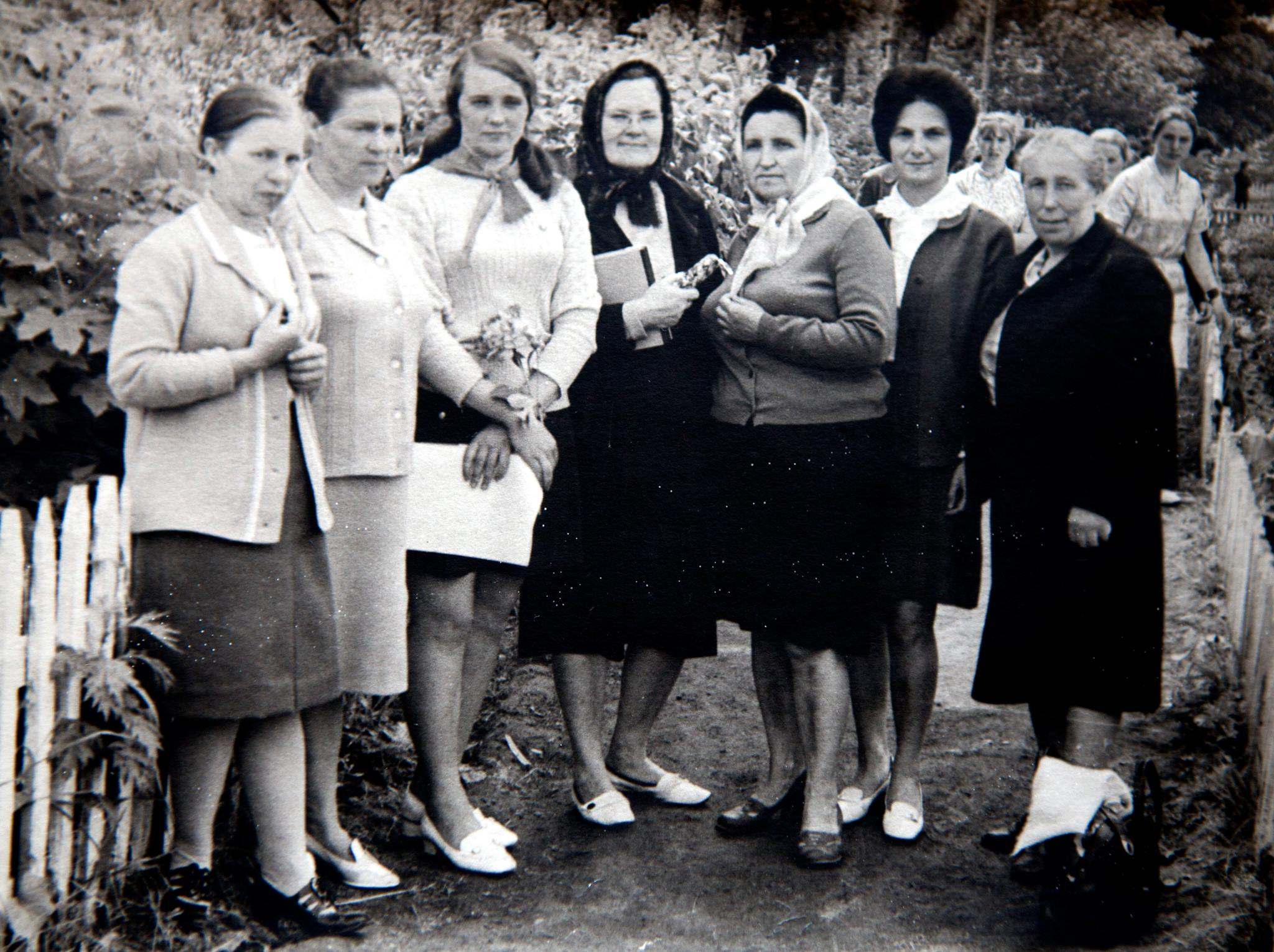 Вчителі Немиринецької школи 1974-1975рр.